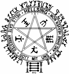 This fictional pentagram is the seal of the hellsing family, an anime cartoon (manga) series. The pentagram on the back of Alucard's (a hellsing character) glove is inscribed: "Hellsing - Hell's Gate arrested - Gott Mit Uns (God With Us) - And shine heaven now." The runes are written in the Trithemian alphabet, and the other symbols are a combination of Japanese, Kanji (or, chinese), and alchemist symbols. See:[1].